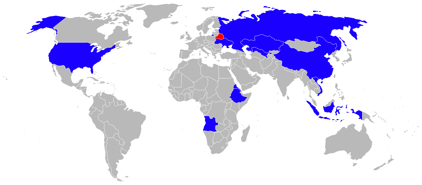 Blue:Current operators of the SU-27 Red: Former operators of the SU-27